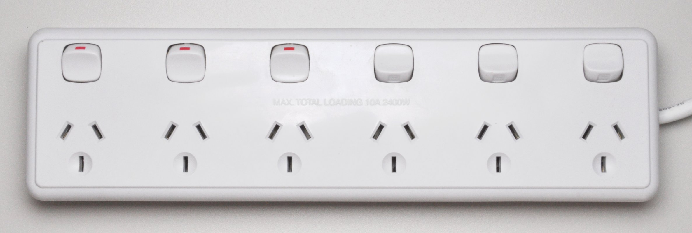 An Australian power strip with individual switches for each outlet.